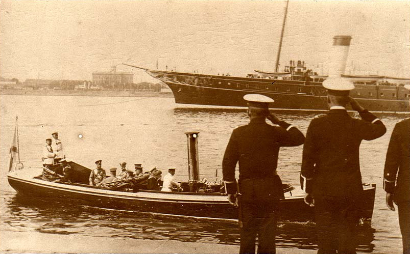 Emperor Czar Nicholas II of Russia visits Riga (then within Russian Empire), Latvia in 1910.